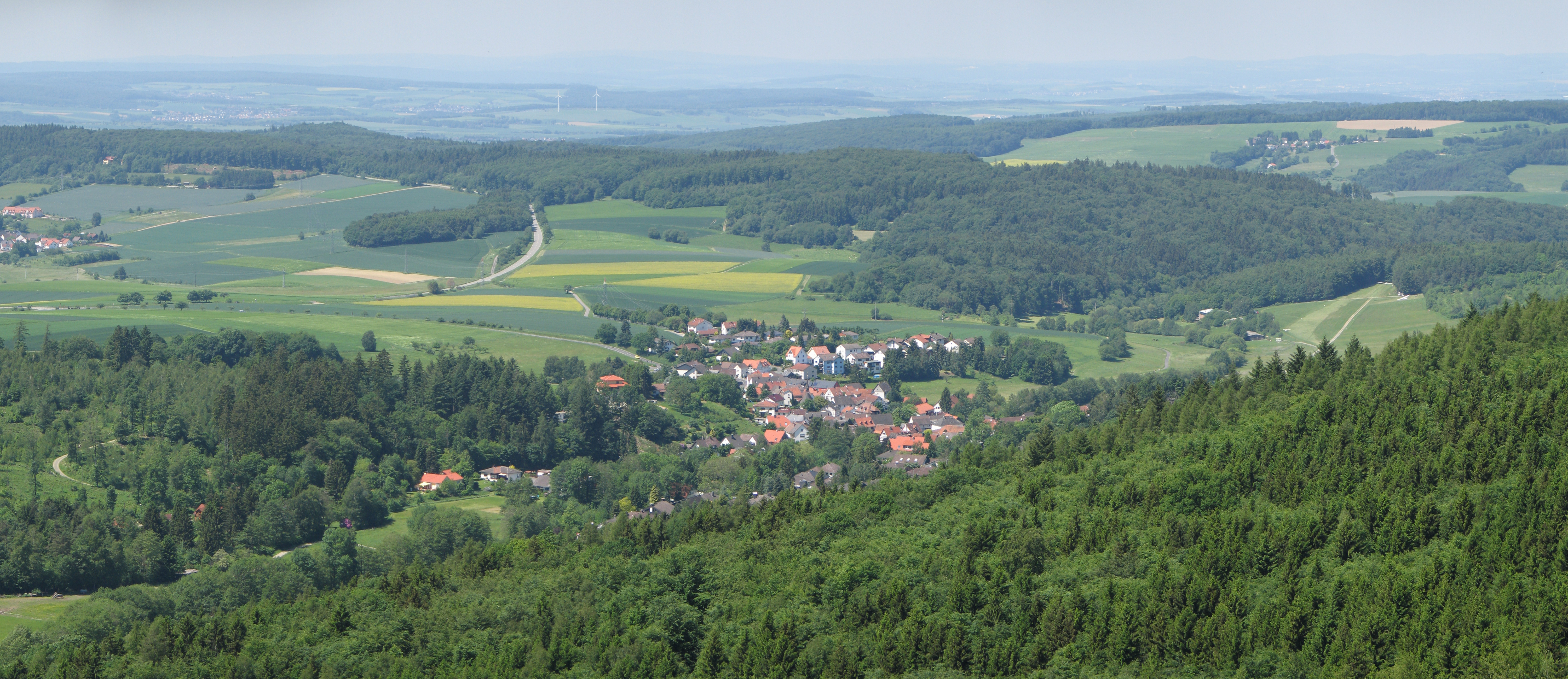 The village Oberems, Glashütten, Taunus, Germany. View from the "Zacken".